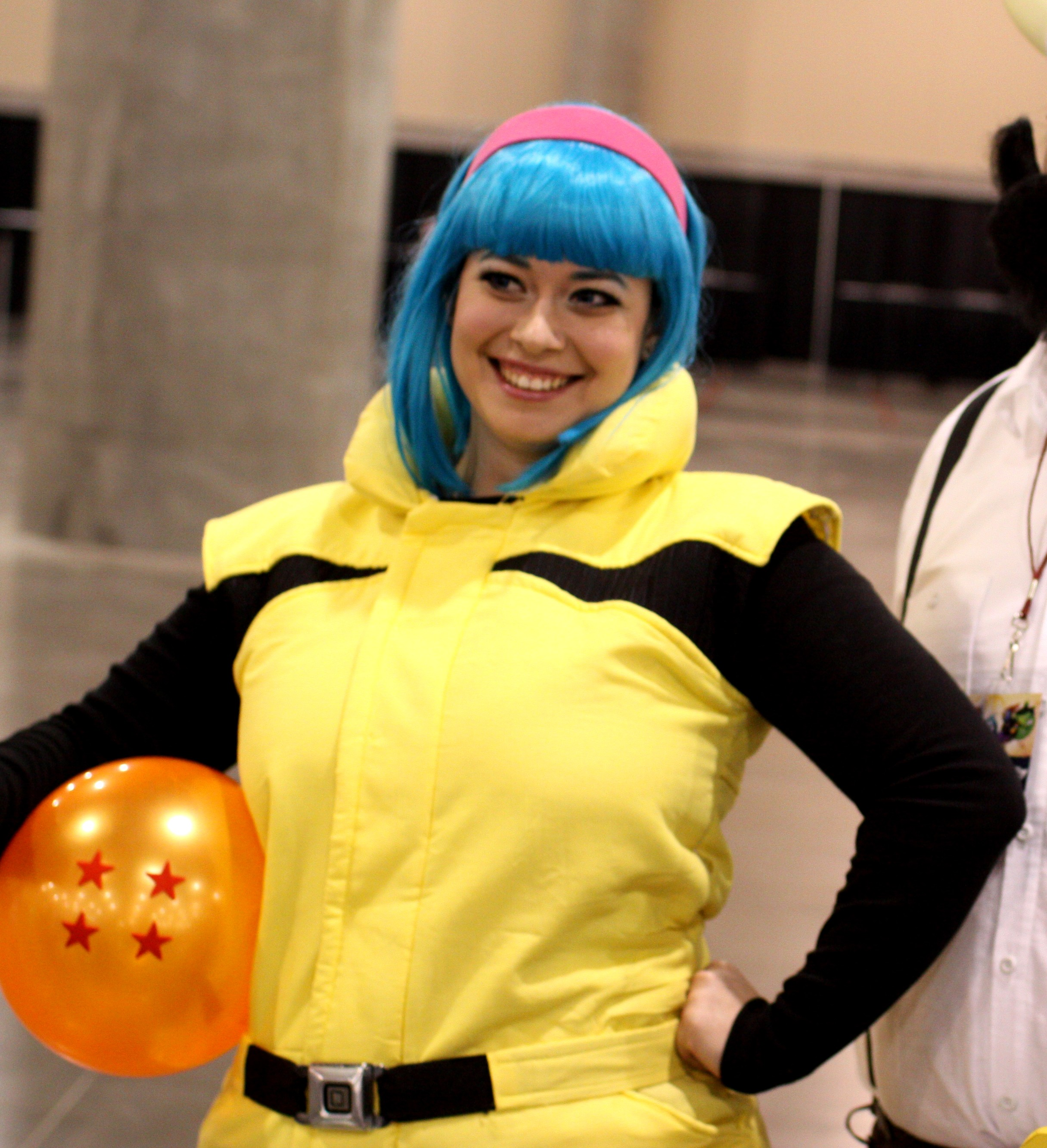 Bulma (Dragon Ball) cosplayer